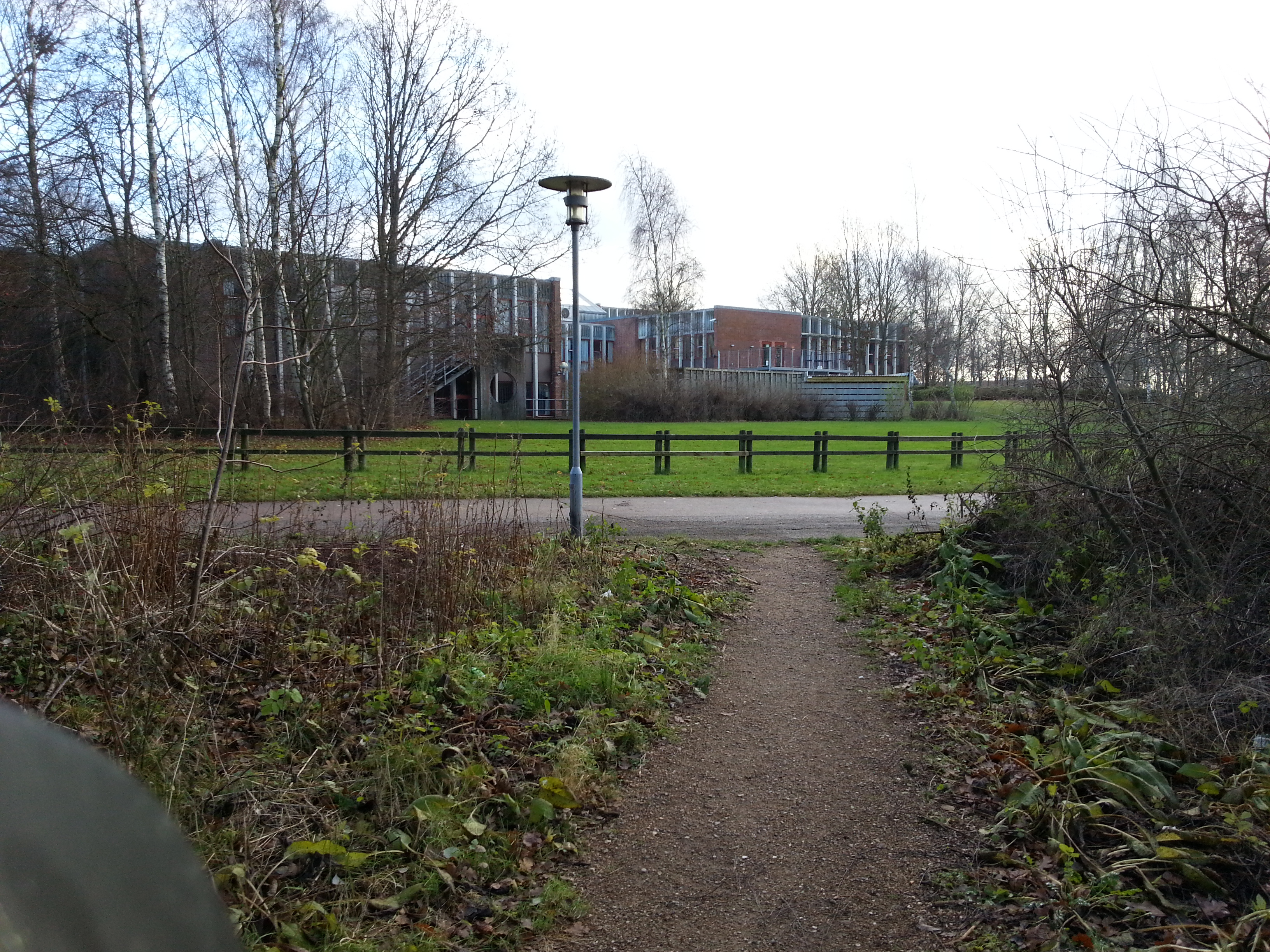 Espergærde Gymnasium 1